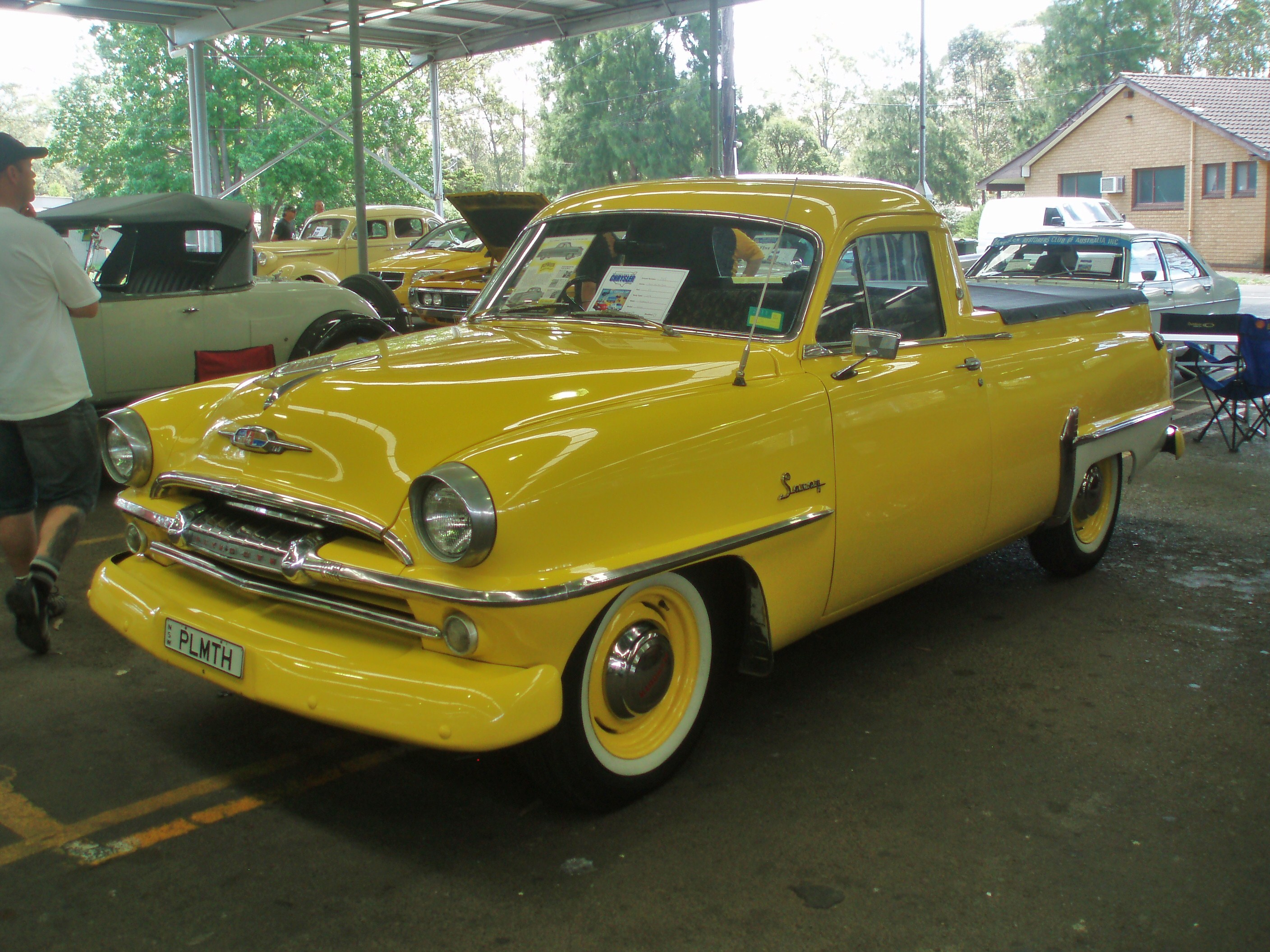 1956 Plymouth Savoy coupe ute. These were Australian designed and built for the domestic market. They were also available as a Dodge or Desoto. They were only available in 1956 and early 1957 until the release of the Chrysler Royal, and their popularity led to the Wayfarer ute version of the Royal being introduced. They are now extremely rare. Taken at the 2010 New South Wales All Chrysler Day, held at Fairfield Showground, Prairiewood, Sydney.